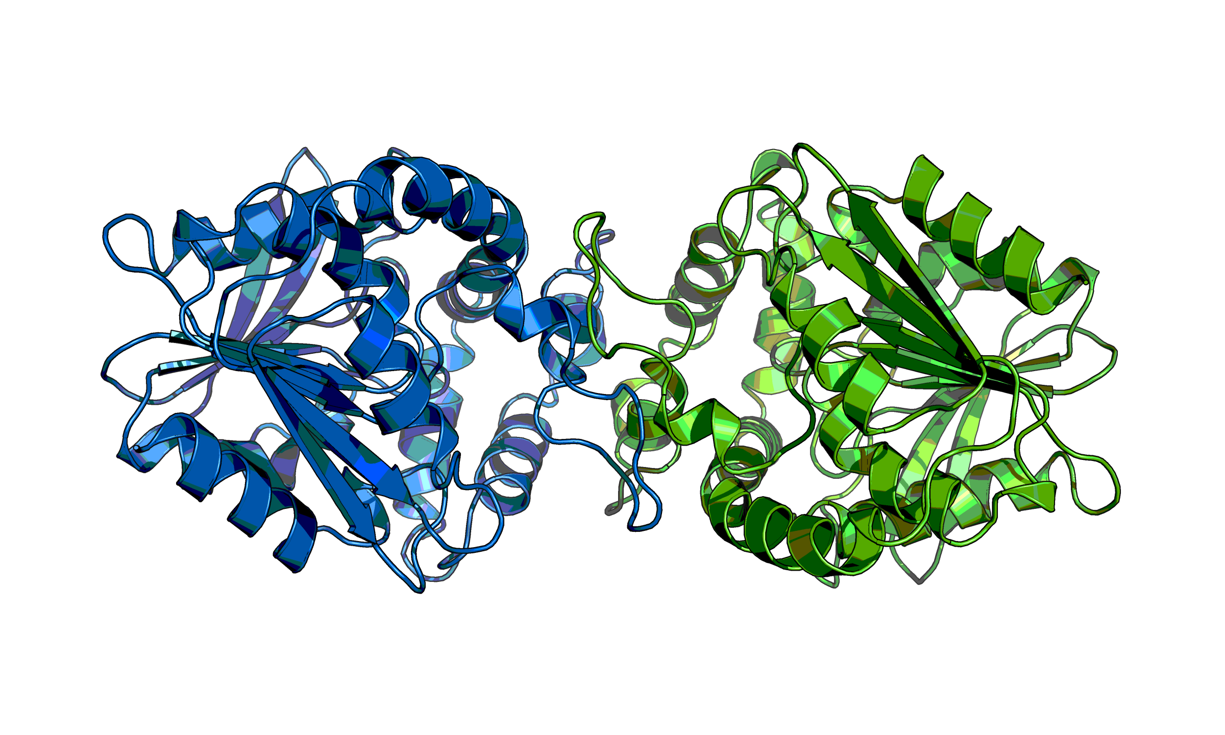 Dimeric Cif protein, rendered as a cartoon with one monomer in green and one in blue.